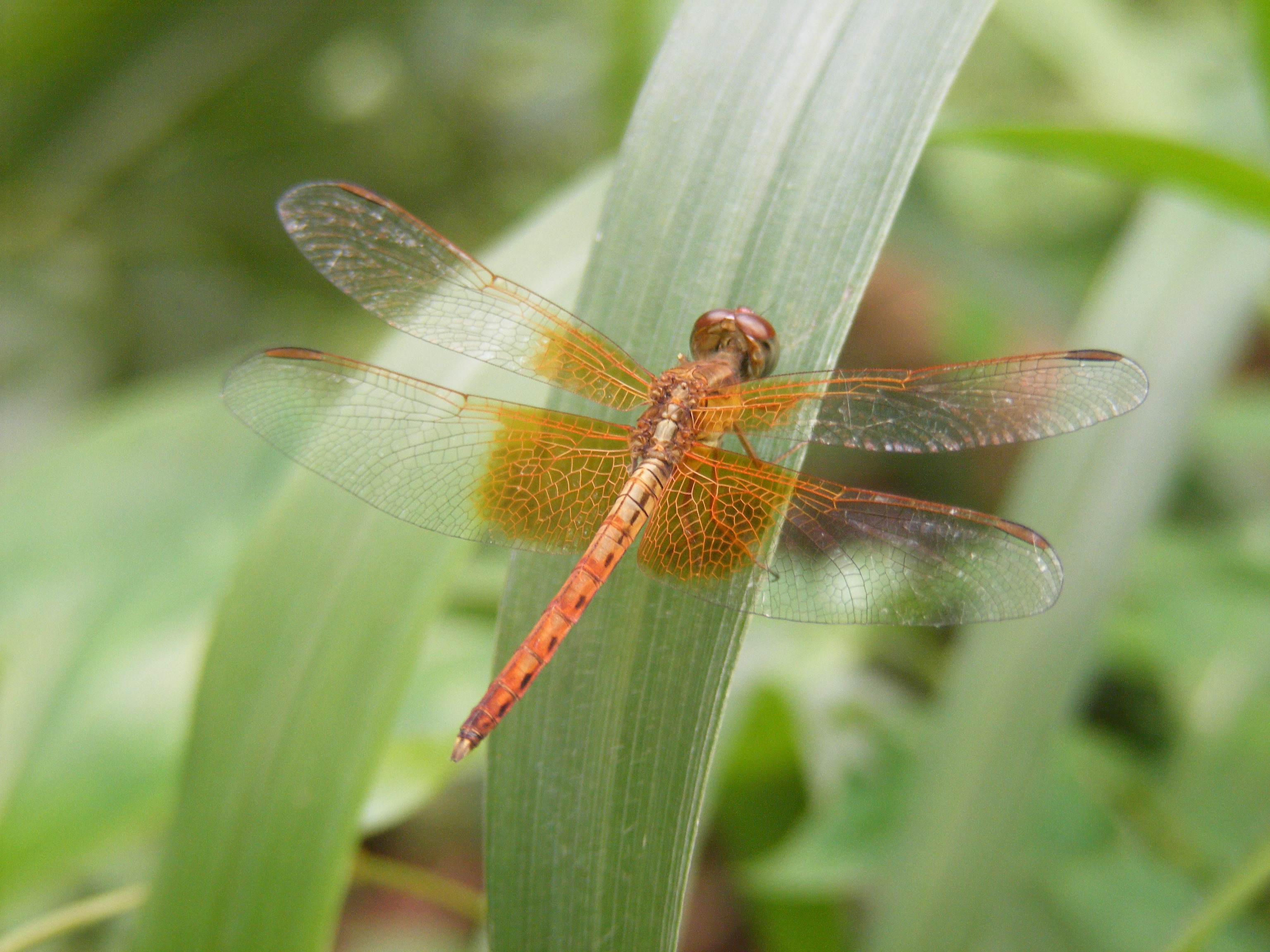 Ruddy Meadow Skimmer - male - from Chalavara, Palakkad